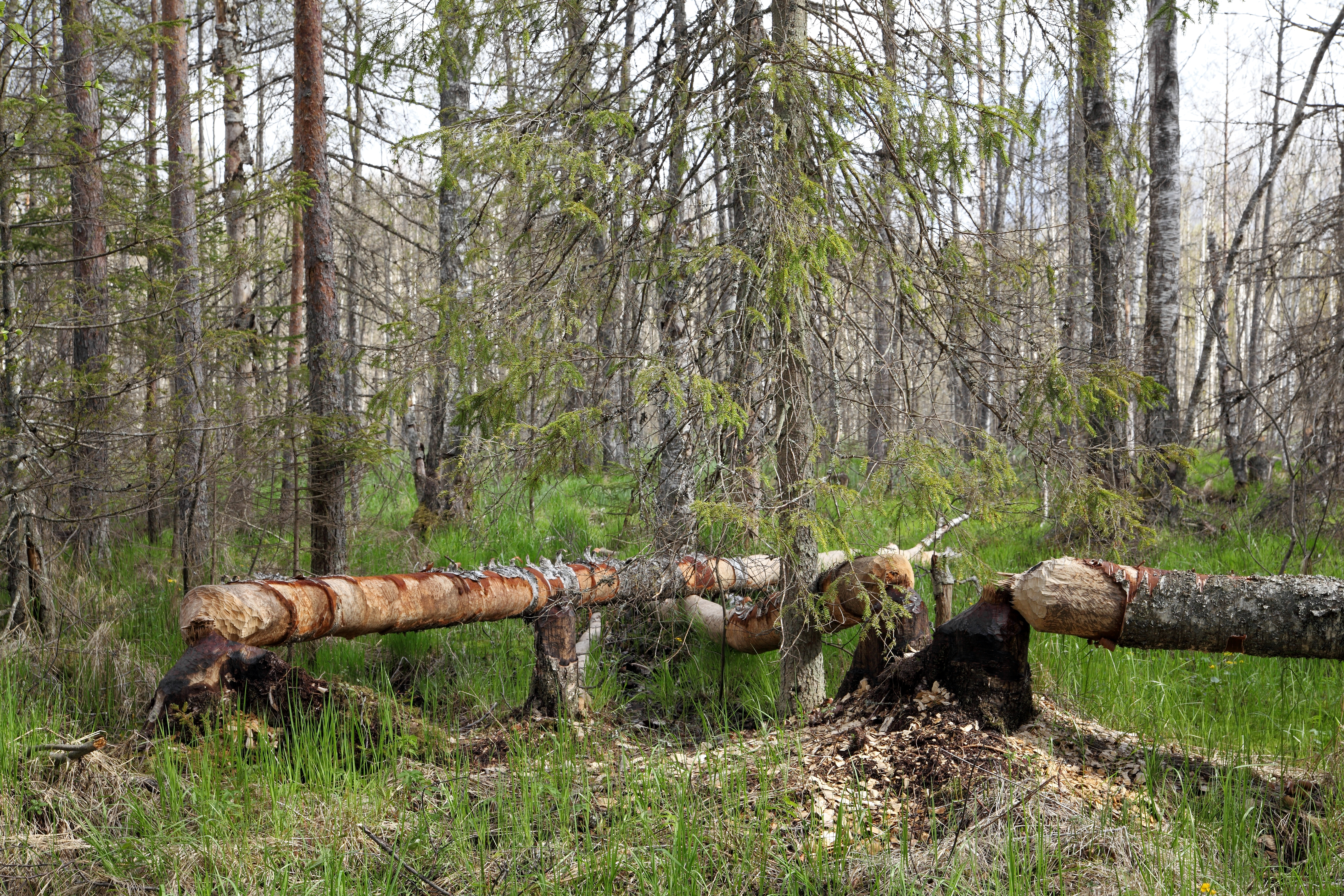 Result of beaver activity near Liivoja stream in Kõrvemaa Nature Park.